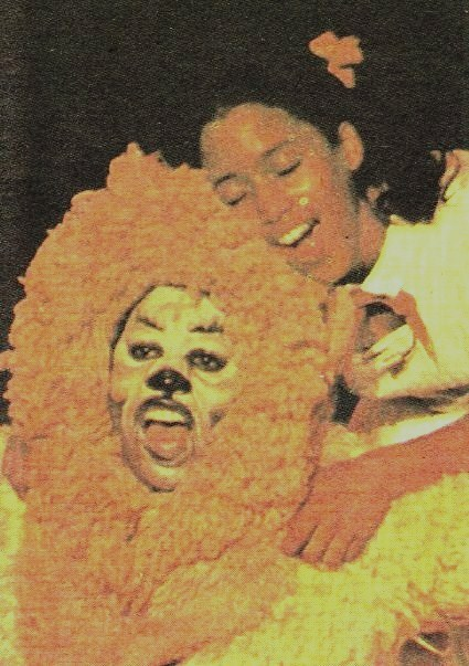 Cincinnati School for Creative and Performing Arts (SCPA) performance of "The Wiz" at The National Theatre in Washington, DC. Darrel Miller as Lion and Aiesha Howard as Dorothy.